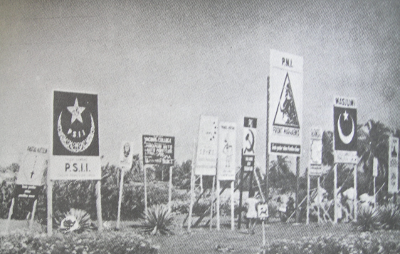 Campaign posters for the 1955 Indonesian election. Photo attributed to the Department of Information of the Republic of Indonesia, dated October 2, 1965. I assert that as the work of a government ministry, this renders it a public domain work.